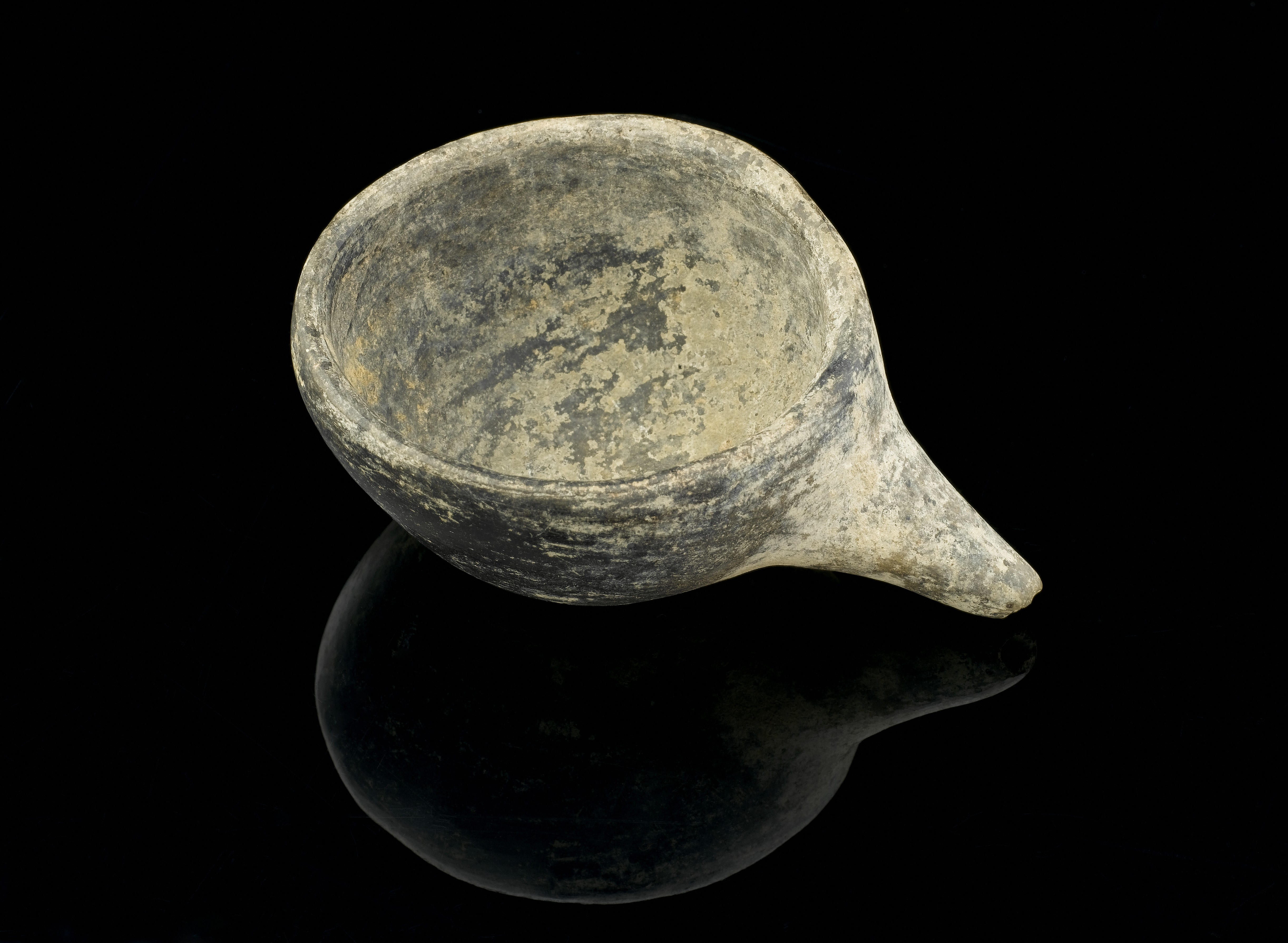 Infants sucked liquids through the conical spout of this simple earthenware feeding cup. It was excavated in 1912 from the grave of twin children in Jebel Moya, Sudan, where Henry Wellcome funded and led a major archaeological expedition. maker: Unknown maker Place made: Sudan Medical Photographic Library Keywords: feeding cup; Nursing